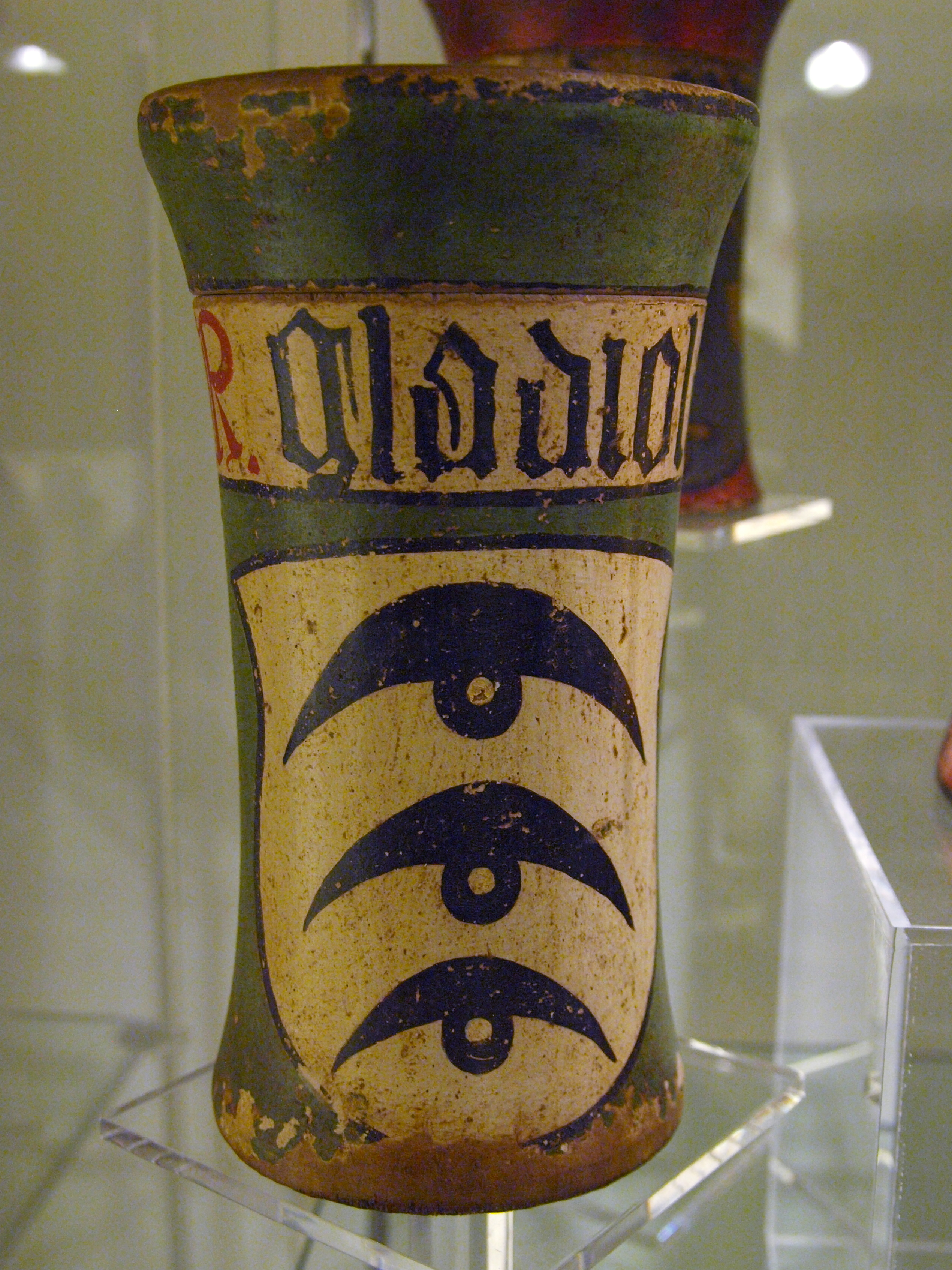 Apothecary vessel with inscription R(adix) Gladiola. Made of turned timber, painted. Austria, dating to 15th or 16th century at Deutsches Apothekenmuseum Heidelberg, Germany